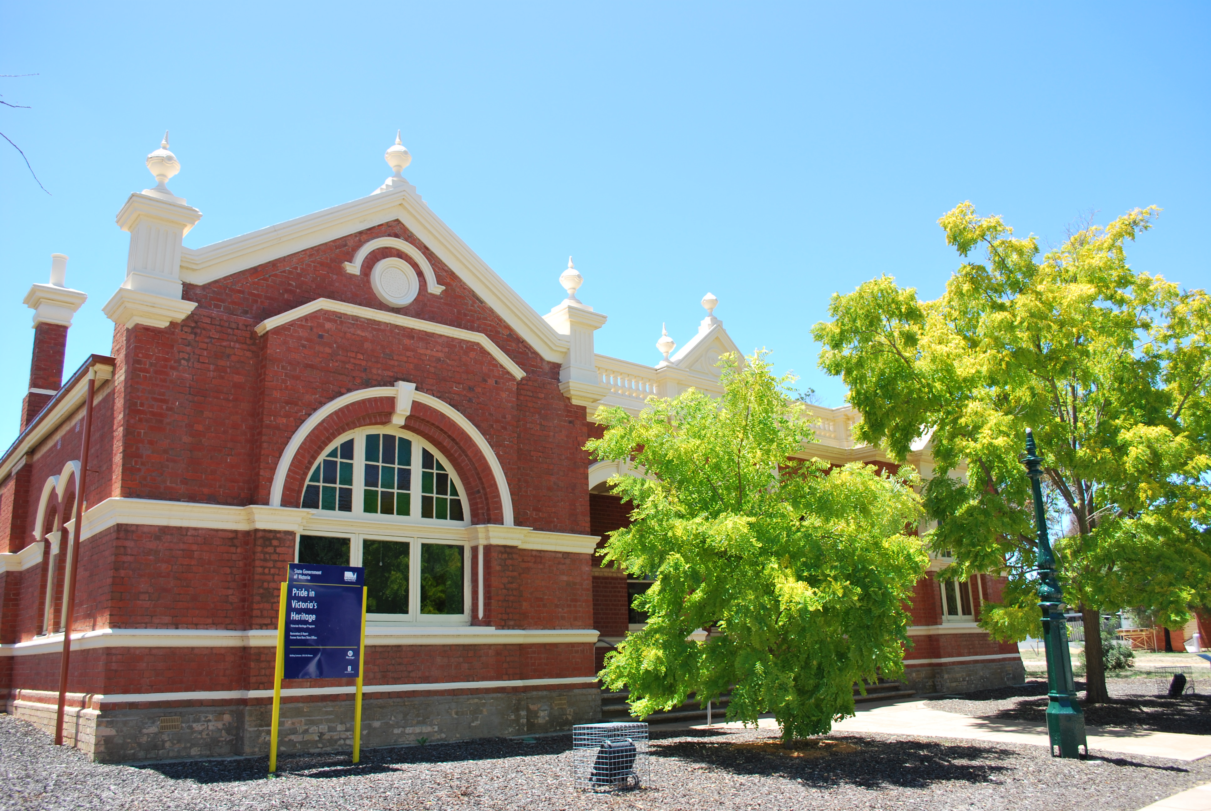 Offices of the now defunct Shire of Kara Kara at St Arnaud, Victoria